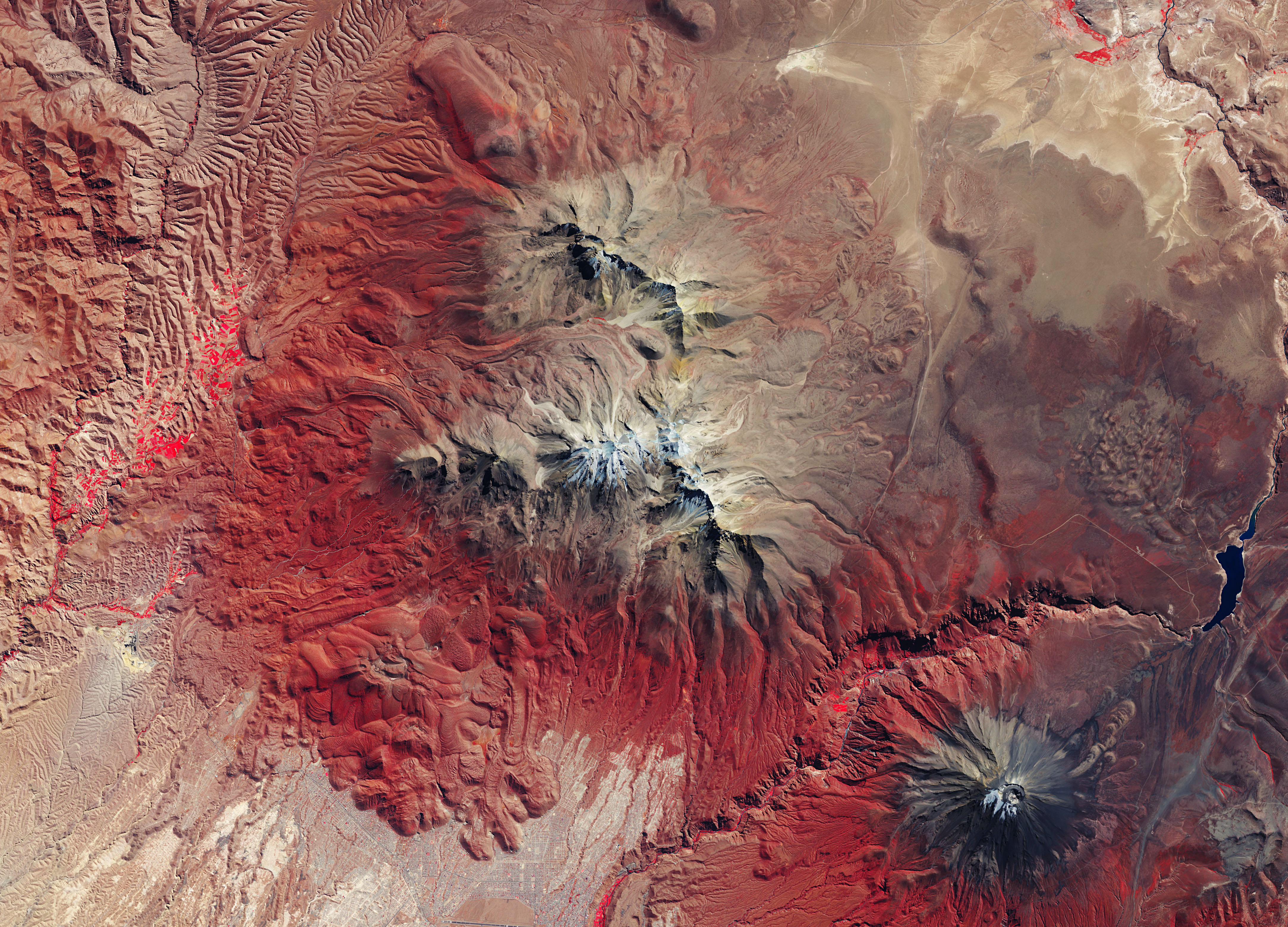 The Copernicus Sentinel-2 mission takes us over the Chachani mountain in Peru. Standing at over 6000 m, Chachani is the tallest of the mountains near the Peruvian city of Arequipa. The outskirts of the city and part of the airport runway are just visible in the centre bottom of the image. The city is home to around 900 000 people and is renowned for its dramatic cityscape, surrounded by three volcanoes. Chachani is shown in the centre of the image. Arequipa is also known as la Ciudad Blanca or the White City thanks to the prevalence of baroque buildings carved from white volcanic sillar stone in its centre. The volcanoes, overlooking the city, naturally form an important part of the city’s identity. Heavy shades of red, showing vegetated areas, dominate this false-colour image. The varying tones represent different vegetation types, at different stages in the annual vegetation cycle. The near-infrared channel of Copernicus Sentinel-2 has been used to achieve this false-colour effect. A number of crops are grown in this area, including maize, asparagus and hot peppers (rocotos), which feature in many local dishes, such as the region’s signature dish of rocoto relleno. In the centre-right of the image we can see a body of water called Aguada Blanca. This is part of a protected natural area, covering 360 000 hectares. Llamas and alpacas live here, as well as flamingos which have made the surrounding lagoons and wetlands of the Andean plains their home. Wool trade is a huge industry for the region, with artisan crafts also booming in recent years. This image, which was captured on 14 July 2017, is also featured on the Earth from Space video programme.